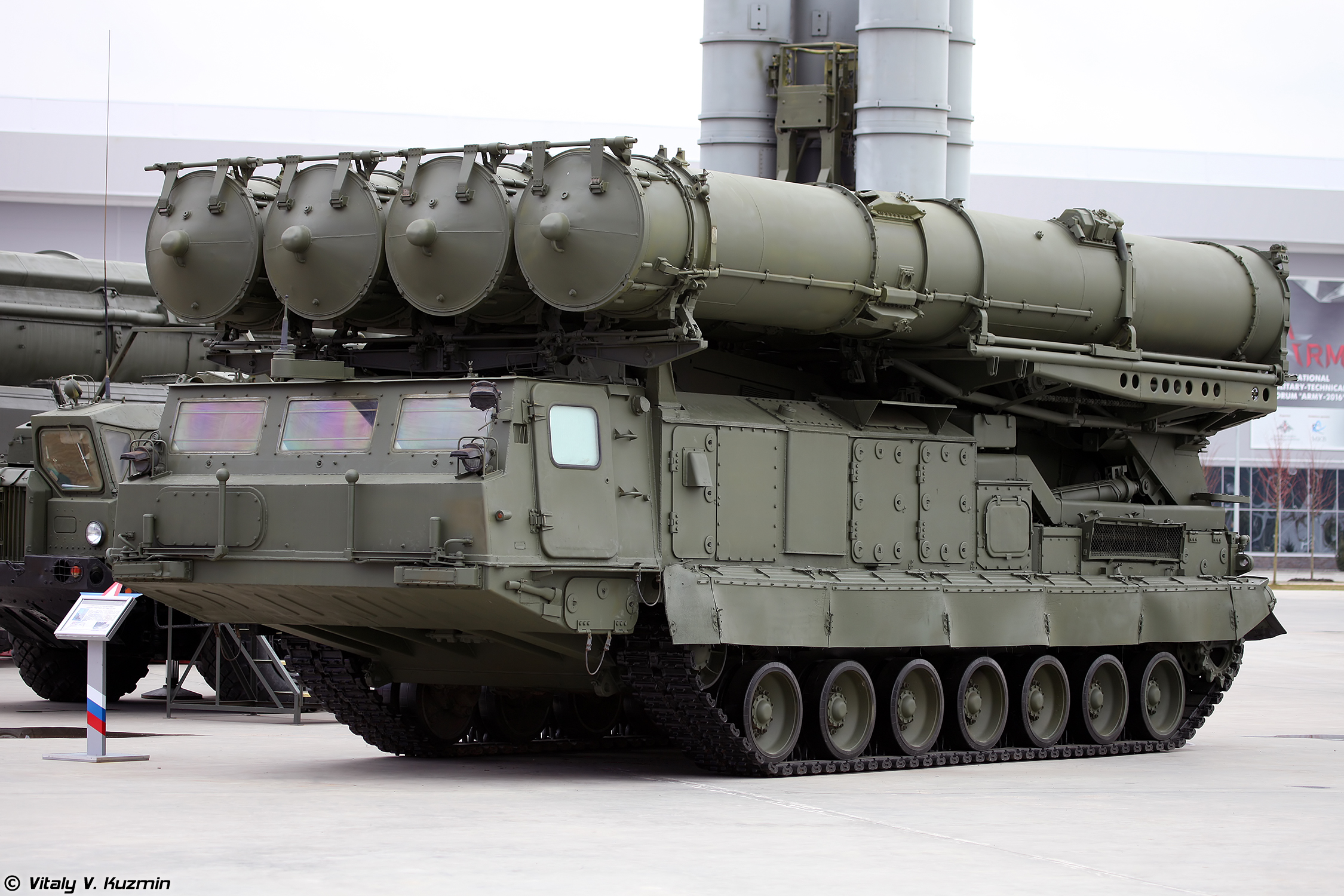 9A83 TELAR for S-300V system - Park Patriot